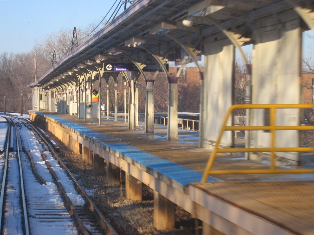 Noyes CTA station in Evanston, Illinois.